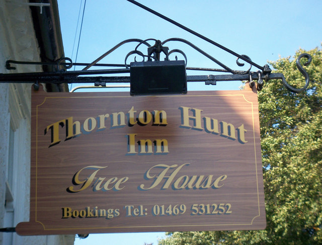 The Sign of the Thornton Hunt Inn, Thornton Curtis. Rather a prosaic sign for this Inn 568169.